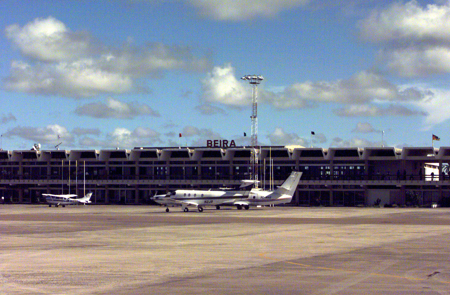 Long shot of Passenger Terminal. Beira International Airport, Mozambique is where U.S. Personnel are flying humanitarian missions while supporting Operation Atlas Response.